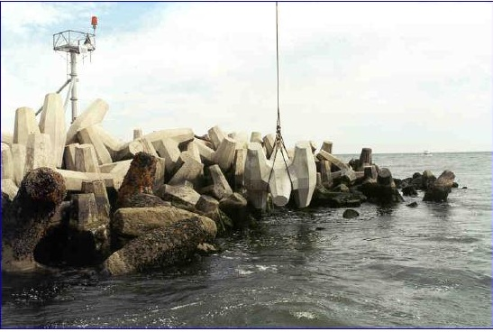 At Manasquan NJ, engineers working from floating platforms placed all CORE-LOC® units in two days.